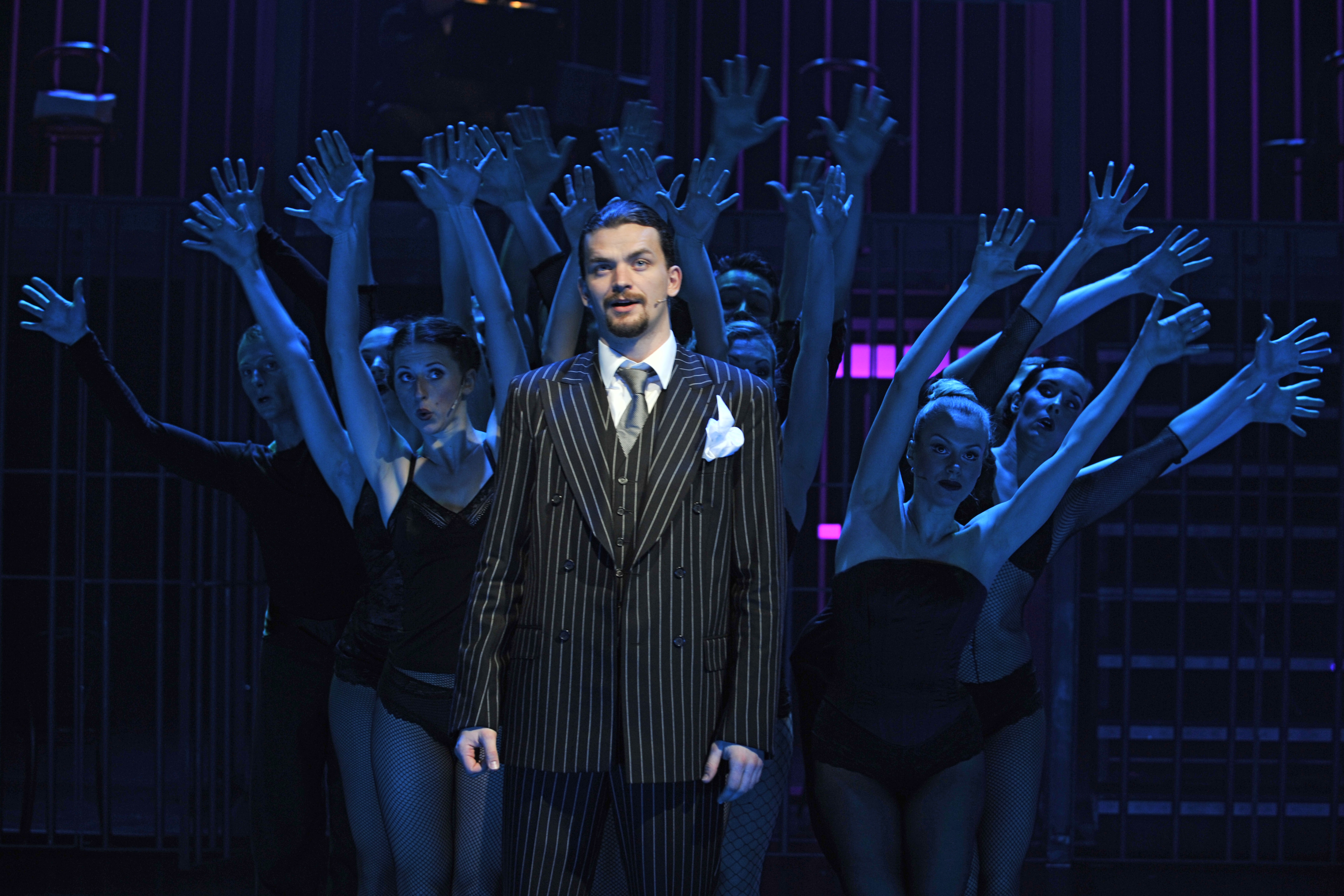 Musical Chicago by Městské divadlo Brno